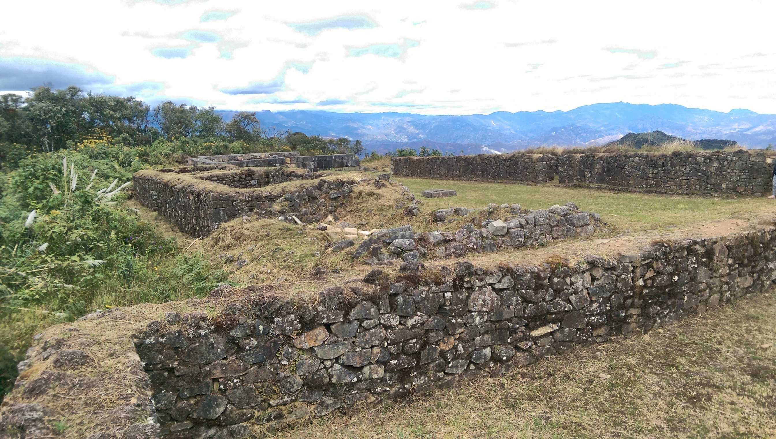 A panoramic front view of the Acllawasi at the historical site Aypate, Department of Piura, Peru.